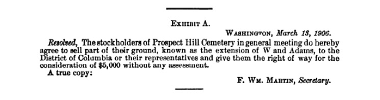 Resolution of the board of trustees of Prospect Hill Cemetery, Washington, D.C., regarding the acceptable payment for land to be transferred to the District of Columbia for the eastward extension of W Street NW and Adams Street NW.